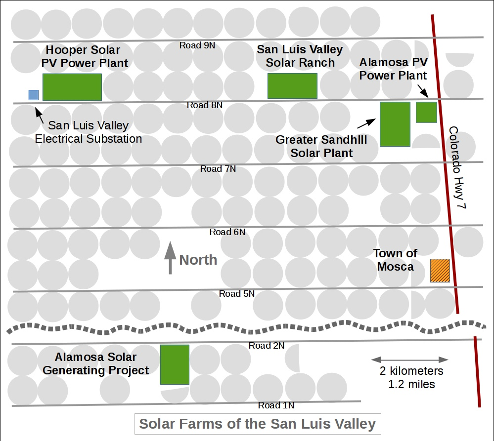 This image shows the relatively close proximity between several of the earliest utility-scale solar farms in the state.